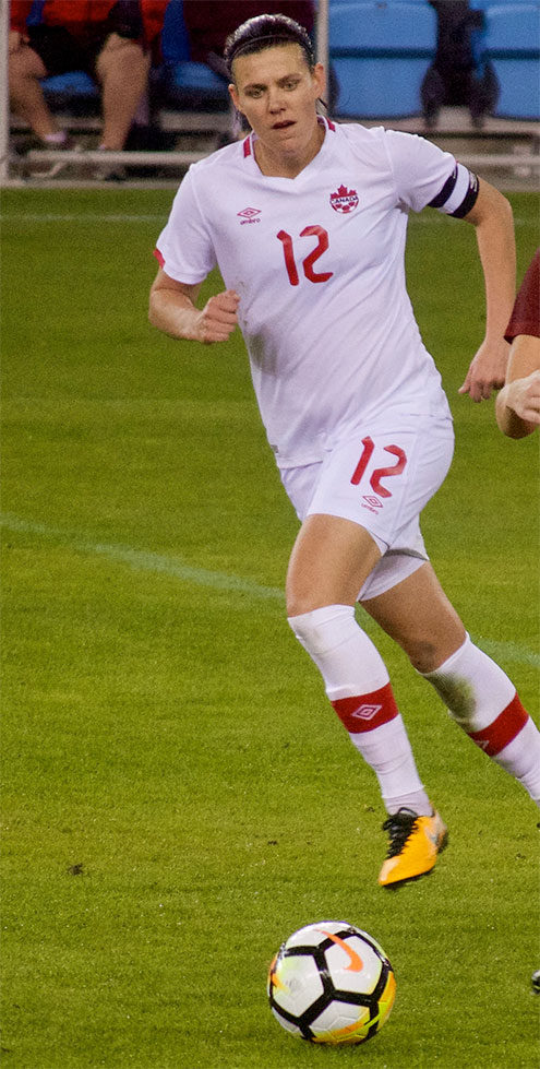 Christine Sinclair during an international friendly Avaya Stadium, San Jose, California, 12 Nov 2017.